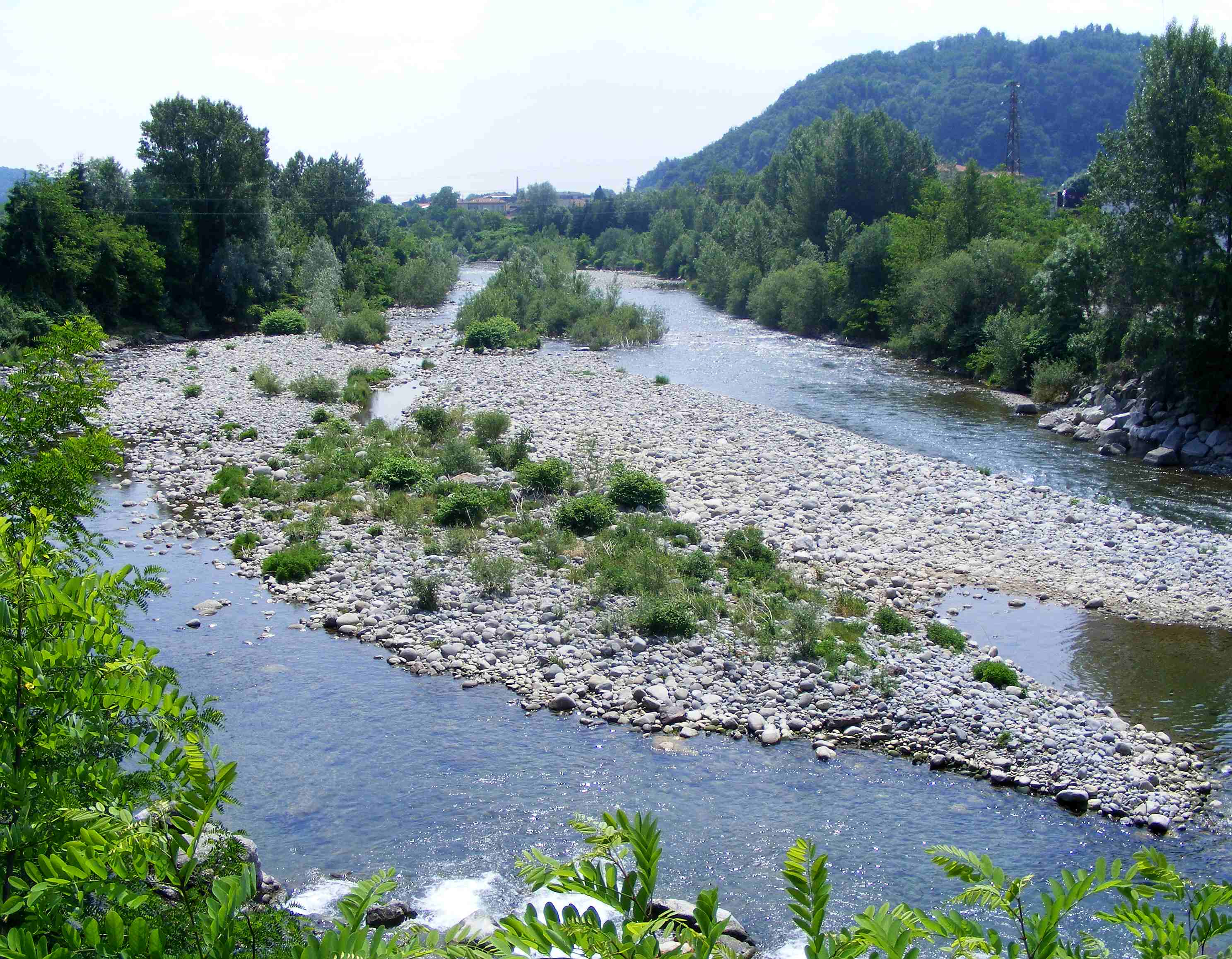 Sessera creek near Borgosesia (VC, Italy)